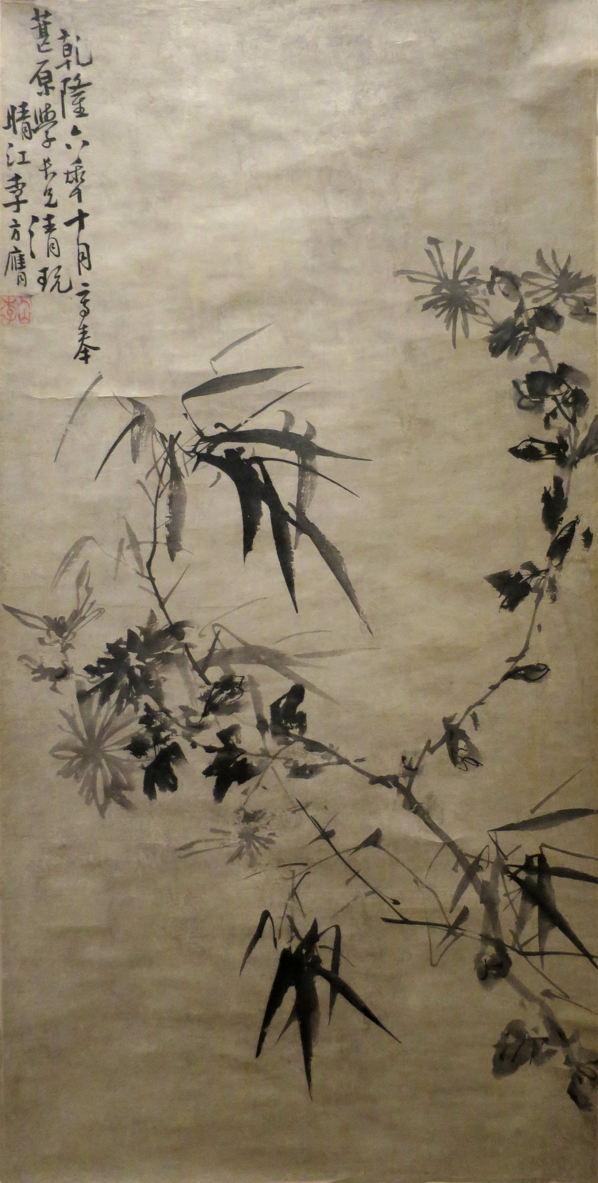 Chrysanthemums and Bamboo by Li Fangying, Qing dynasty, dated 1741, ink on paper, Honolulu Museum of Art, accession 9050.1